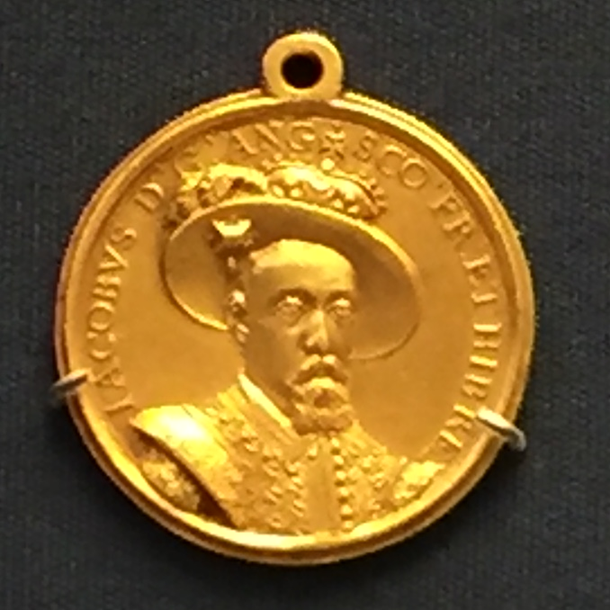 Gold medal minted in England in 1604 to celebrate the peace signed with Spain, at the beginning of the reign of James I. British Museum, London, UK.